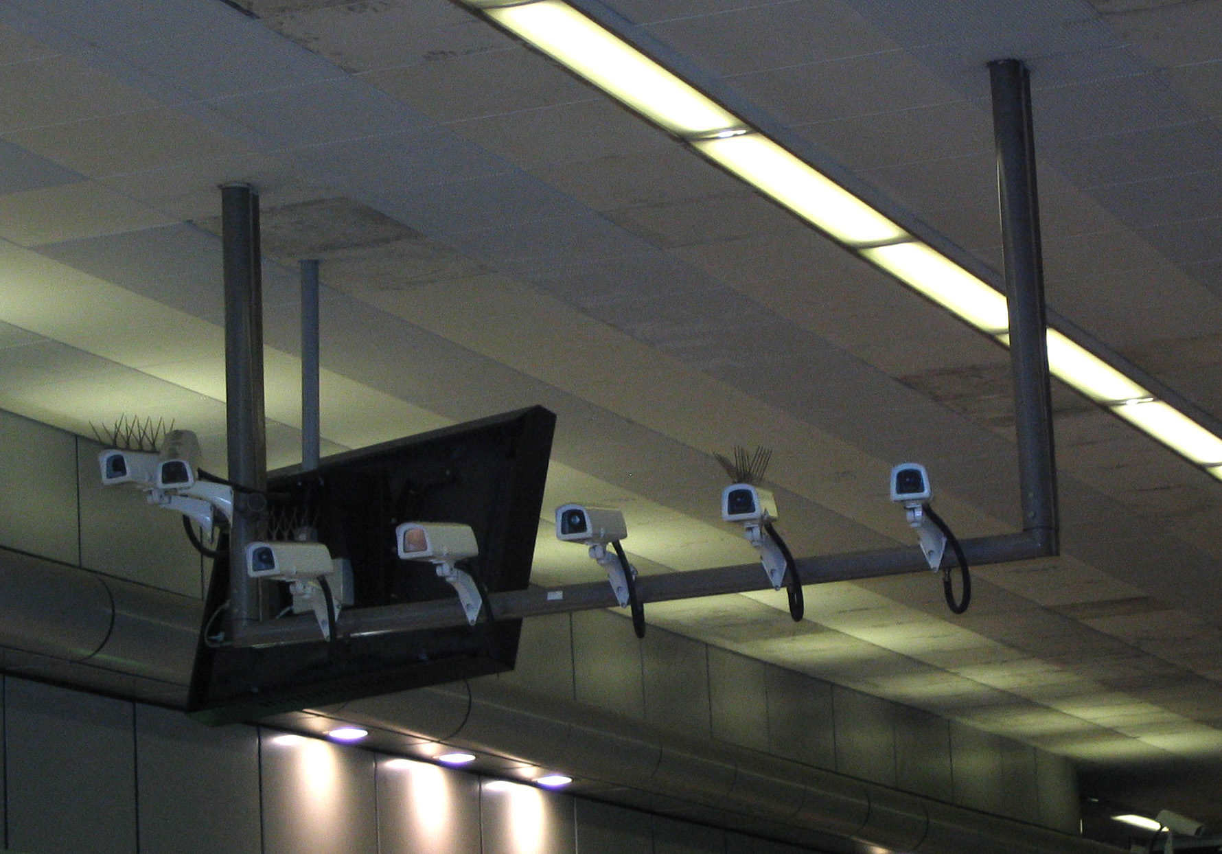 An array of seven CCTV (closed-circuit television) cameras at an exit to Birmingham New Street station, the busiest station in the United Kingdom outside London.